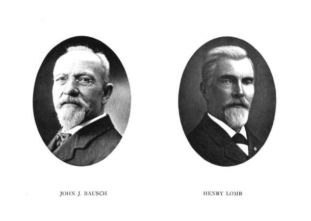 John Bausch and Henry Lomb, New York State Men Biographic Studies and Character Portraits, N.Y.: The Argus Company, 1910, page 45.